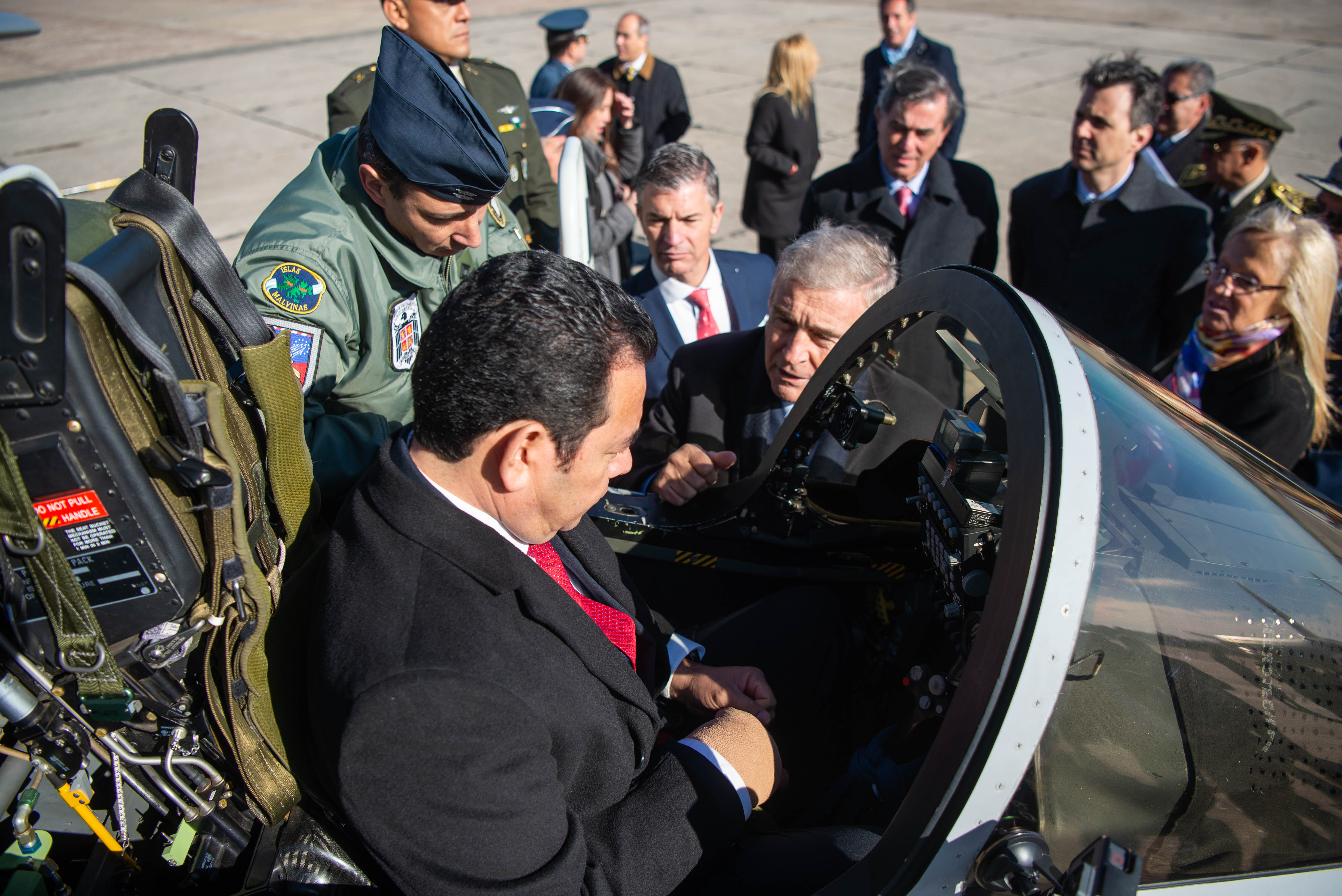 Guatemalan President Jimmy Morales on board a coach Pampa III. In July 2019, the Government of Guatemala purchased two aircraft of that model from Argentina for 28 million dollars.